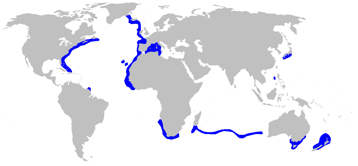 Distribution map for Centroscymnus coelolepis